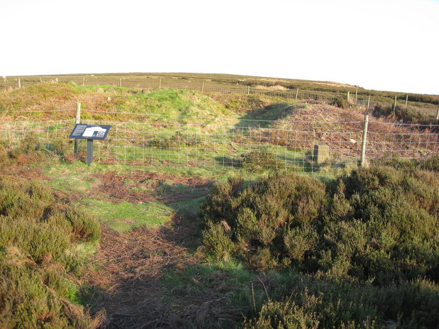 Beeley Moor - Hob Hurst's House, Derbyshire. The information board reads as follows :- There are numerous prehistoric mounds on these moors, many marking late Neolithic and early Bronze Age burial sites. Built by local families in their fields and open pastures to contain the bones of 'ancestors', the mounds were visible symbols of community sense of place. However Hob Hurst's House is unique with its square central mound, ditch and outer bank. Hob Hurst's House was one of the first monuments in Britain to be taken into state care, through the Ancient Monuments Protection Act of 1882. The stone bollards, inscribed VR which surround the site, were erected at that time. The curious name Hob Hurst's House, refers to a mythical hobgoblin who haunted nearby woods.